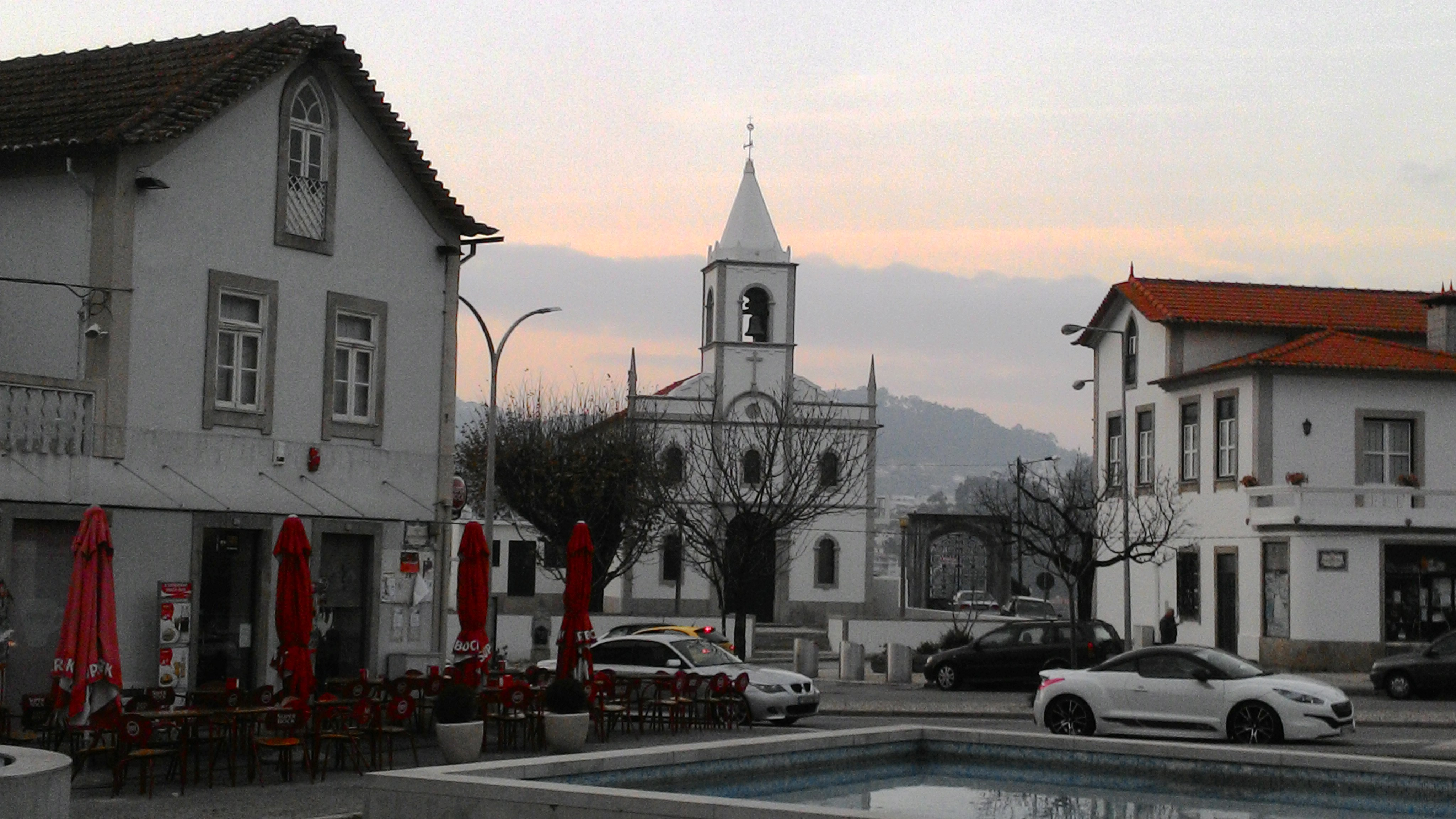 Foto ilustrativa